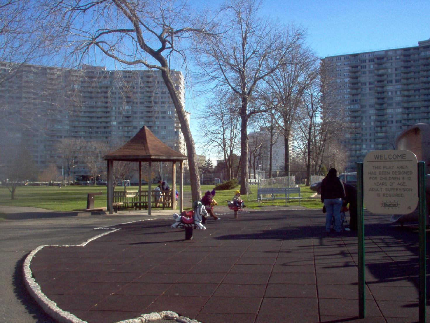 Constitution Park in Fort Lee, New Jersey, as seen from its access on Fletcher Avenue.